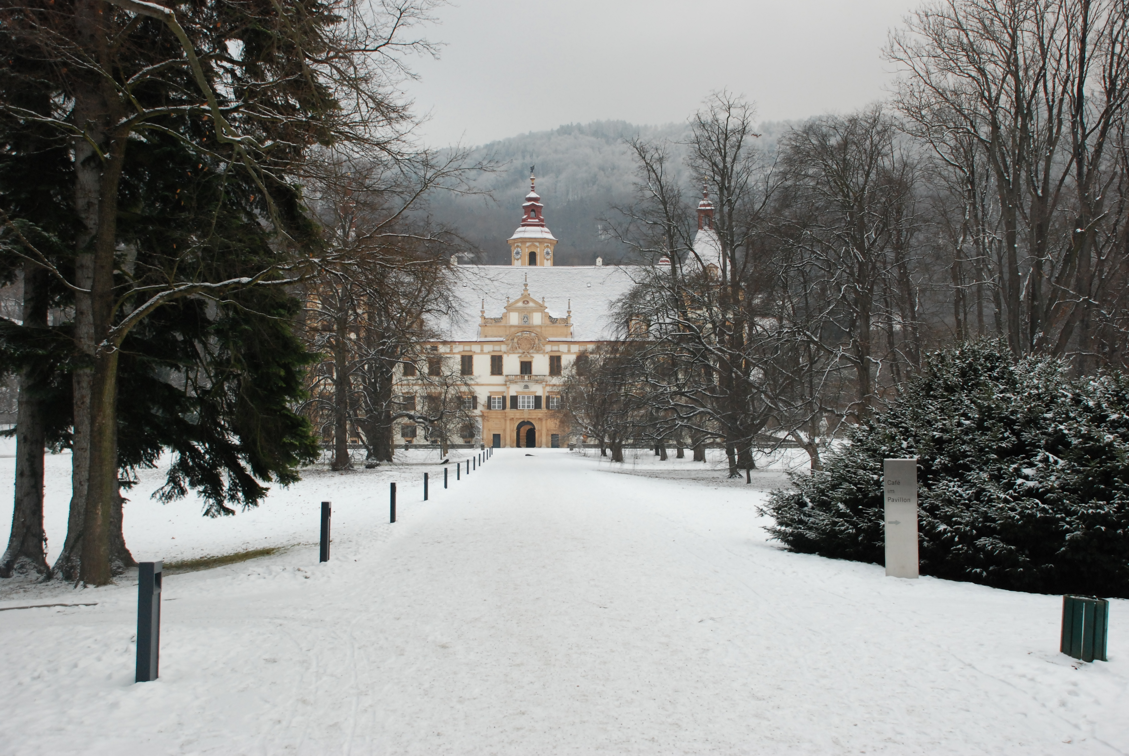 castle of Eggenberg/Graz